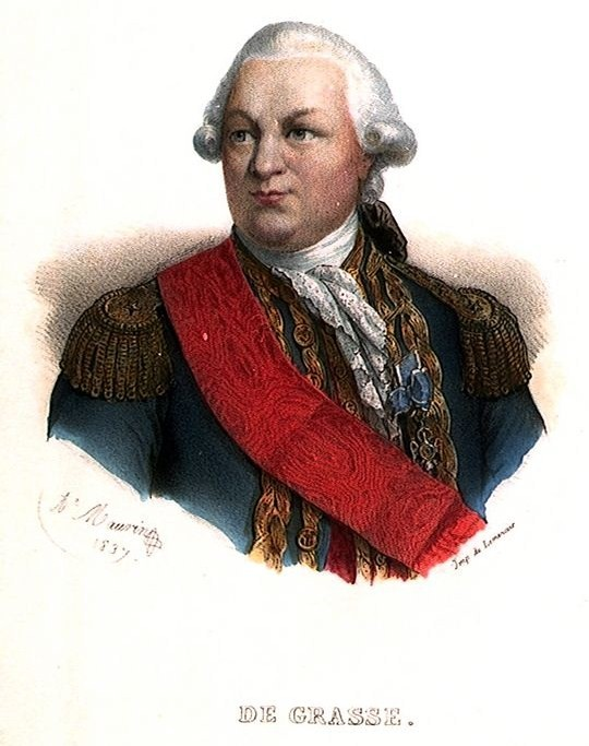 Count De Grasse. Vice Admiral victorious in the naval battle of the Chesapeake in 1781.